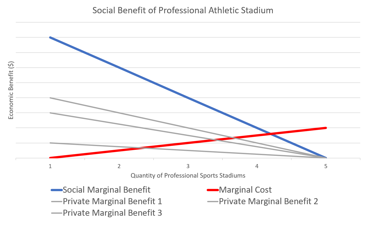 Chart describing the social marginal benefit of a stadium subsidy